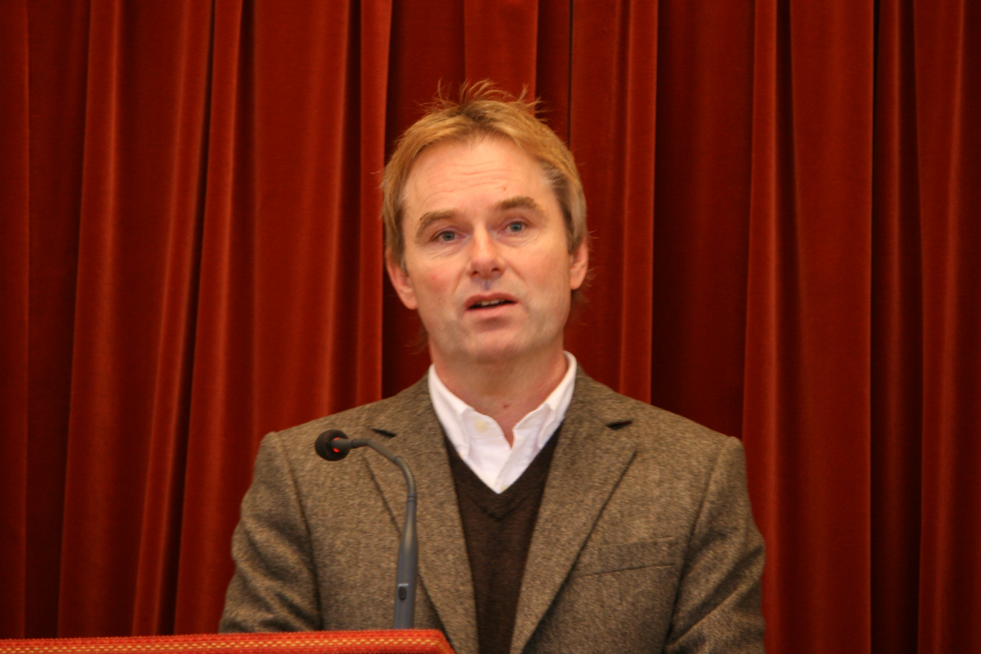 Dag Erik Pedersen, Norwegian TV anchor and retired road racing cyclist.